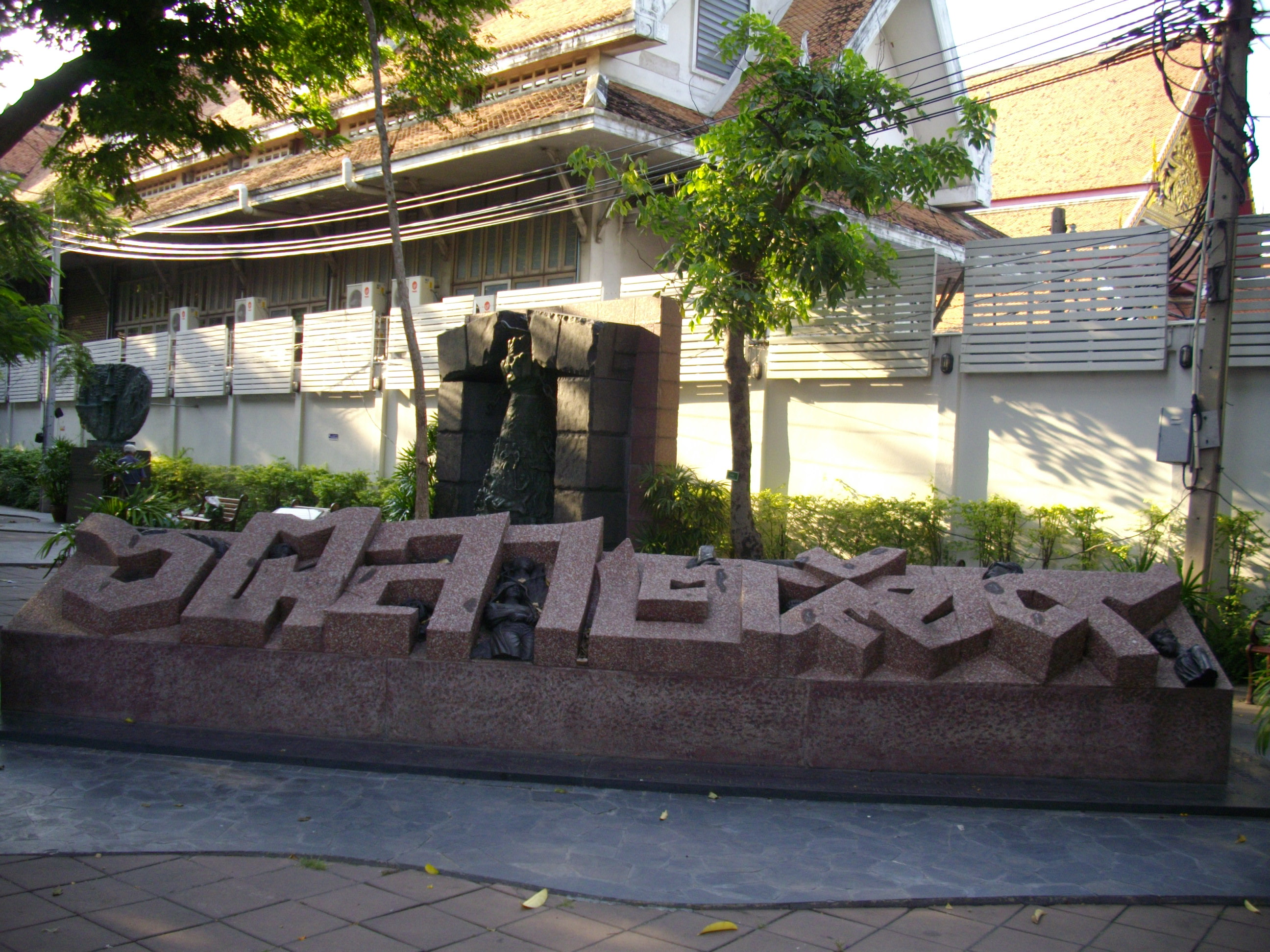 Sculpture of the Massacre of 6 October 1976 Memorial at Thammasat University, Bangkok, Thailand.